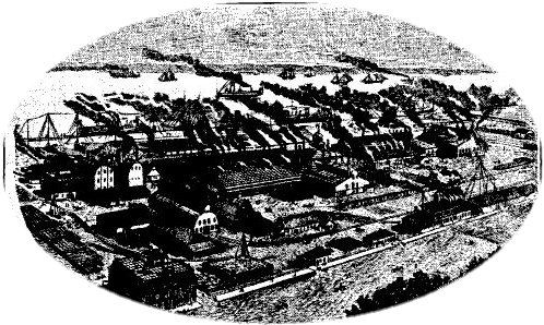 Eureka_Iron_&_Steel_Works_1860